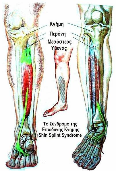 Shin Splint Syndrome